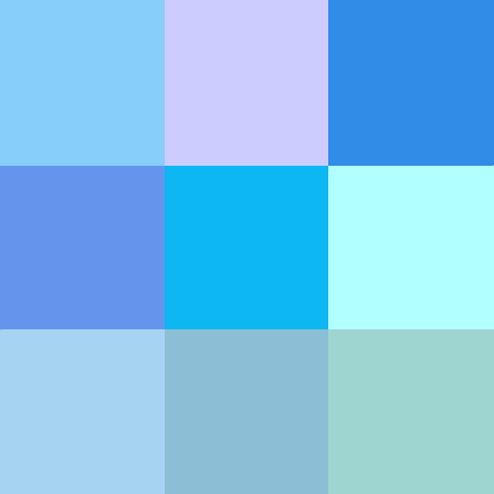 Shades of light blue